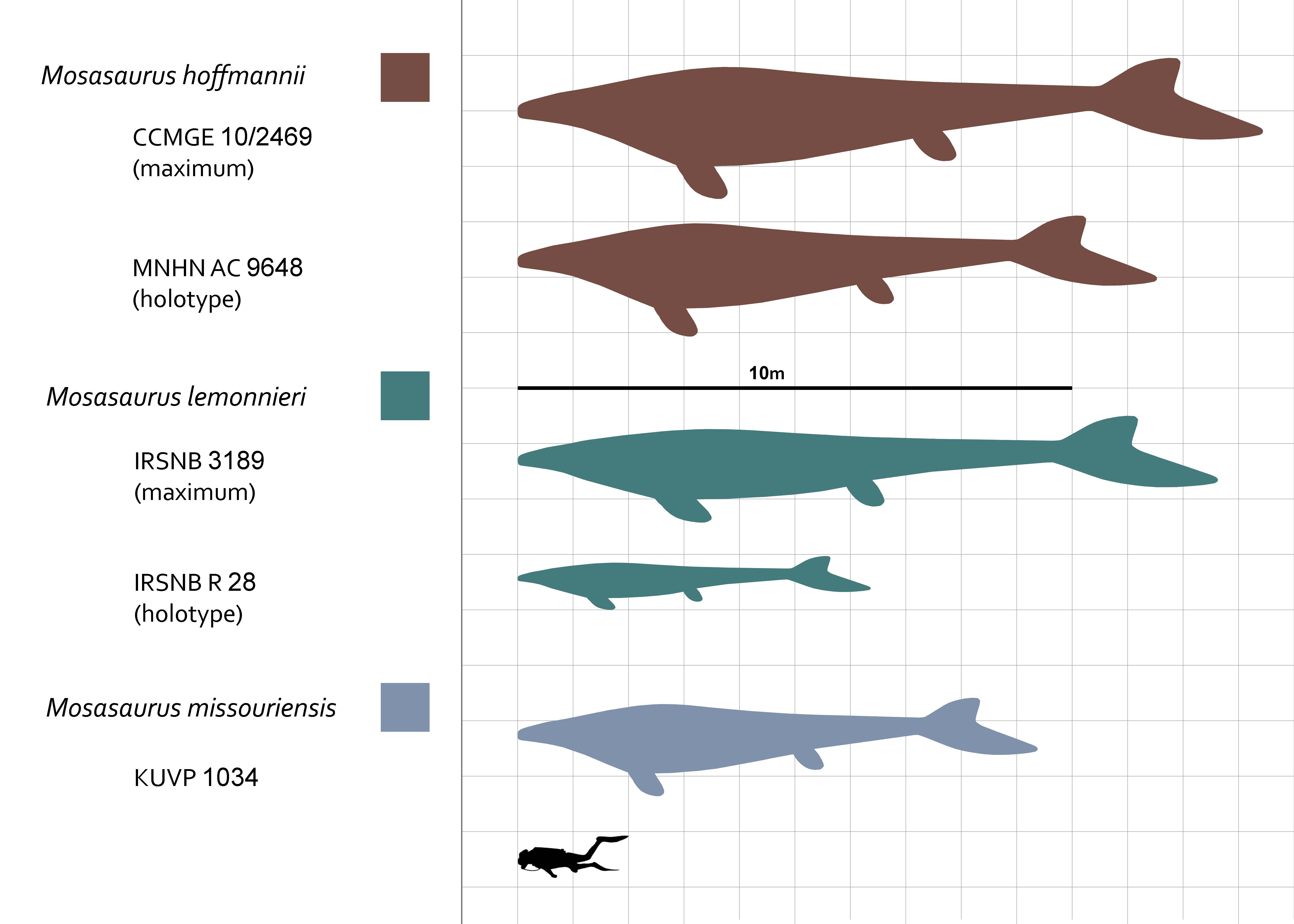 Composite size comparison of Mosasaurus species. KUVP 1034 is based on skull lengths from measurements recorded in Ikejiri & Lucas (2014), with body scaled based on rough reconstruction of M. hoffmannii by SaltieCroc using the M. missouriensis specimen TMP 2012.010.0001 and other Mosasaurus specimens as a proxy. M. hoffmannii body is scaled based on the same model. CCMGE 10/2469 is based on skull measurements by Grigoriev (2014). MNHN AC 9648 based on scale provided by PWNZ3R-Dragon on DeviantArt. M. lemonnieri body is roughly based on ratios provided by Dollo (1892). IRSNB 3189 and IRSNB R 28 based on measurements provided by Lingham-Soliar (2000). Sizing the Mosasaurus is difficult as there is little reliable scientific literature that works on measuring the lengths of the genus, and potentially key specimens are not easily accessible or well-described. As a result, much of what is depicted here is derived from the work of amateur paleoartists that have been interested in providing reconstructions of Mosasaurus. If possible, revision of the body proportions of each species in this scale is encouraged when needed.